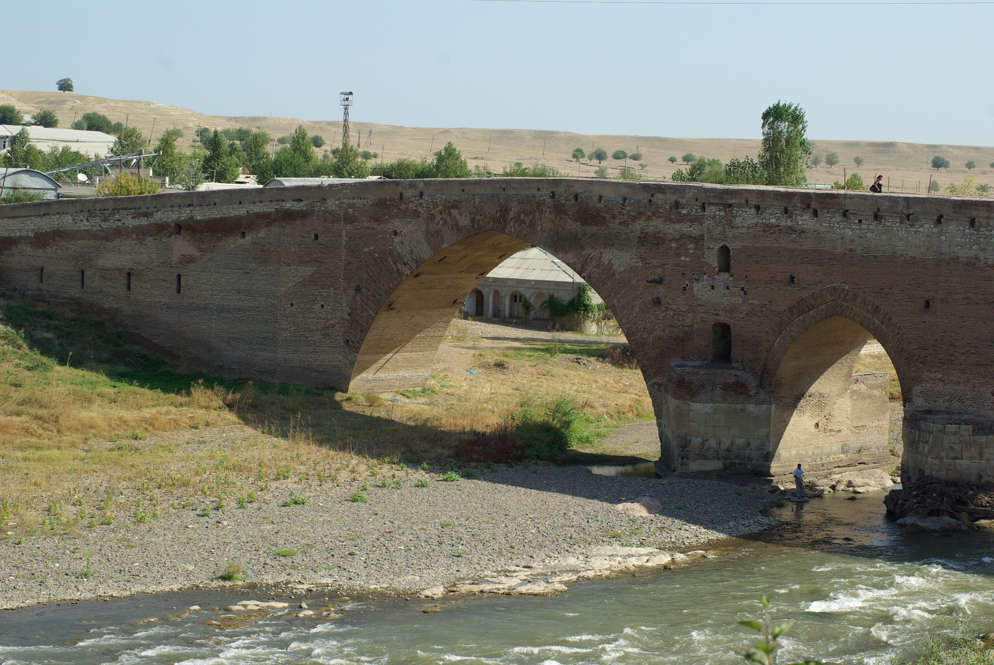 Border bridge Krasny Most or Red Bridge